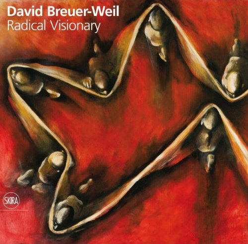 The cover for the recent monograph on Breuer-Weil's work